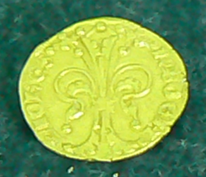 Floren of John I, Count of Luxemburg